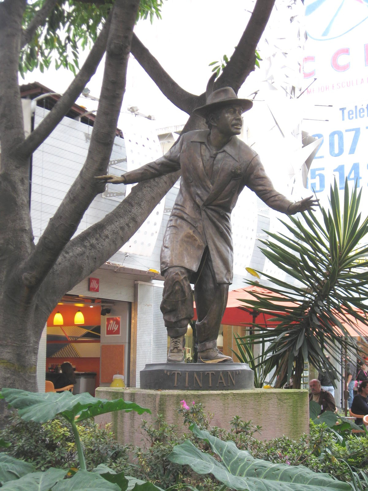 Statue of German Valdes or Tin Tan on Genova Street in "Zona Rosa" of Mexico City